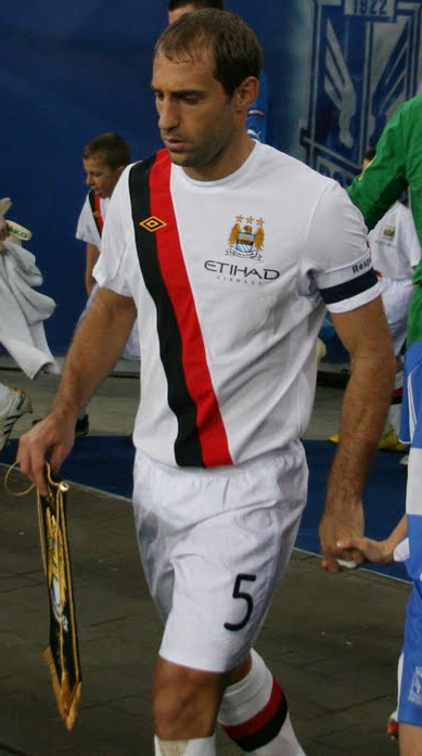 Man City go onto pitch Lech Poznań vs Manchester City FC, 4 November, 2010